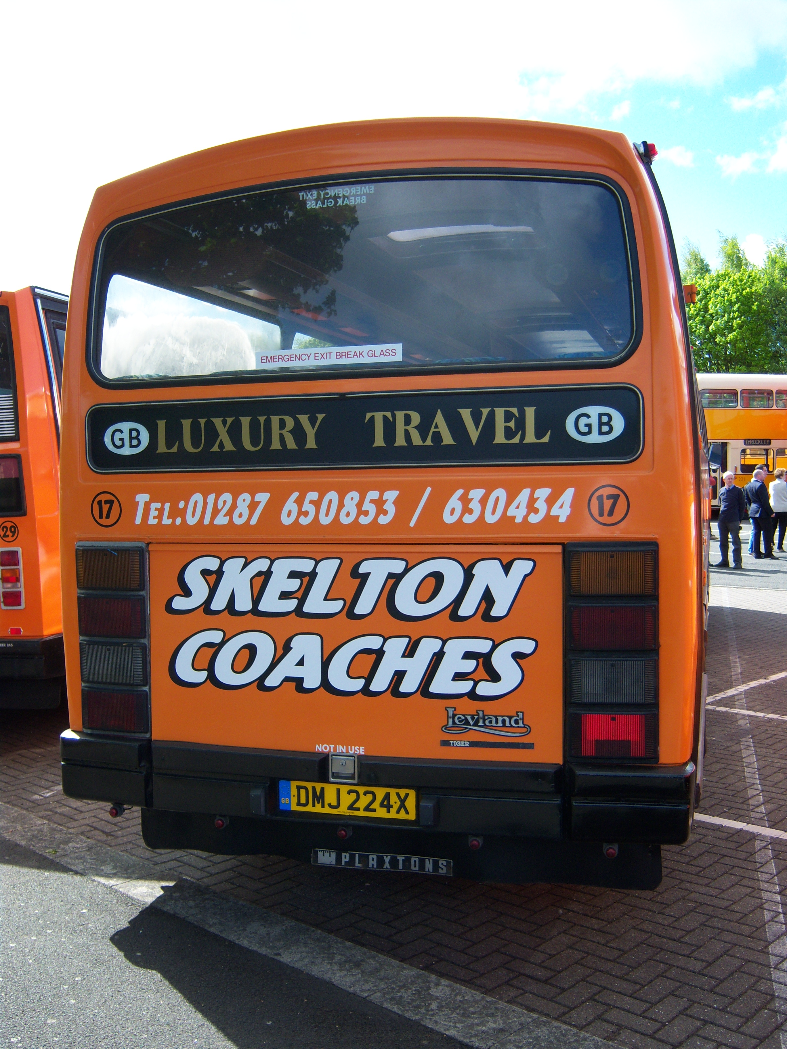 Skelton Coaches 17 (DMJ 224X), a Leyland Tiger/Plaxton Supreme used on private hire, seen on display at the 2009 Metrocentre bus rally.